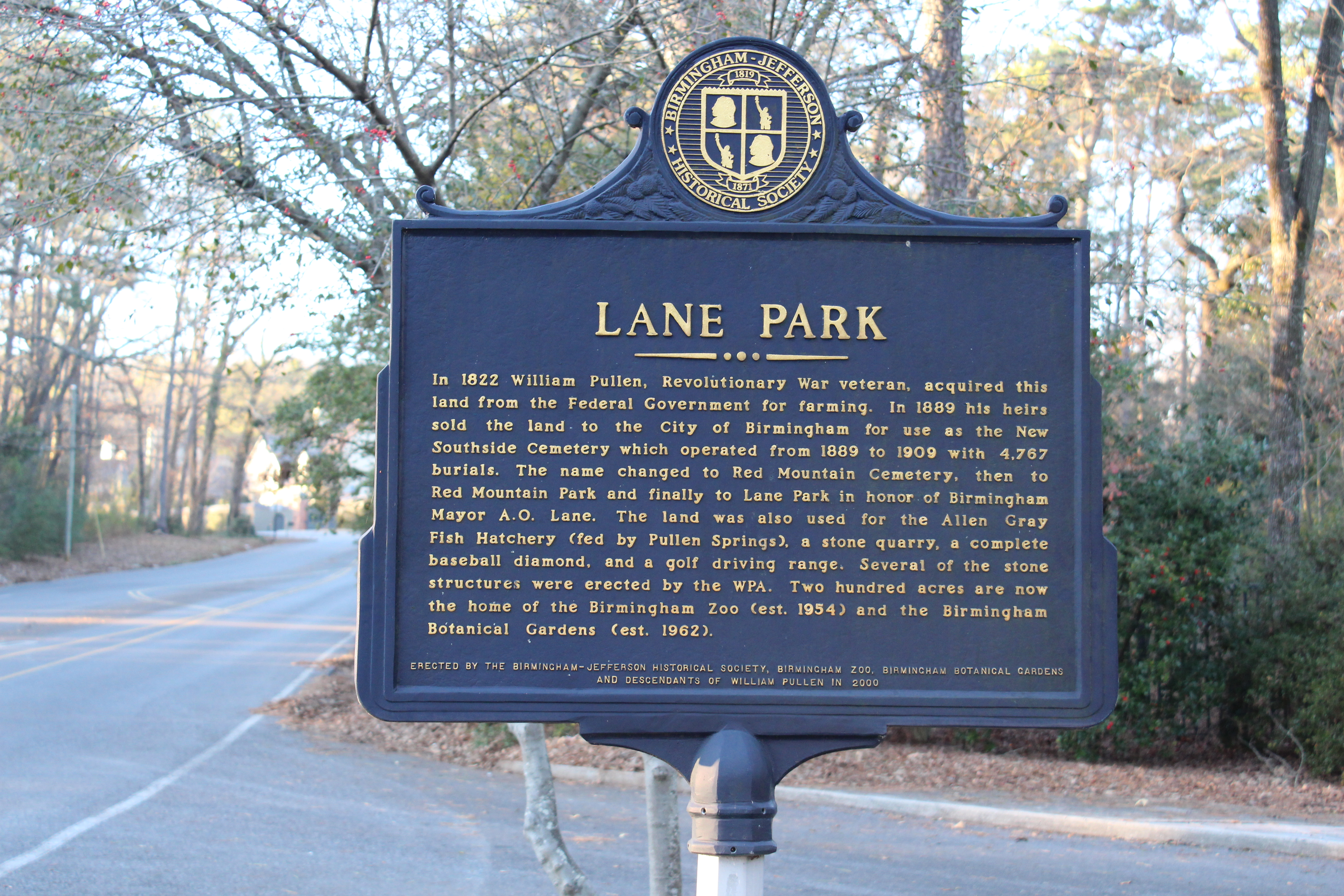 Lane Park Historical Plaque, Birmingham, AL, USA, Birmingham-Jefferson County Historical Society